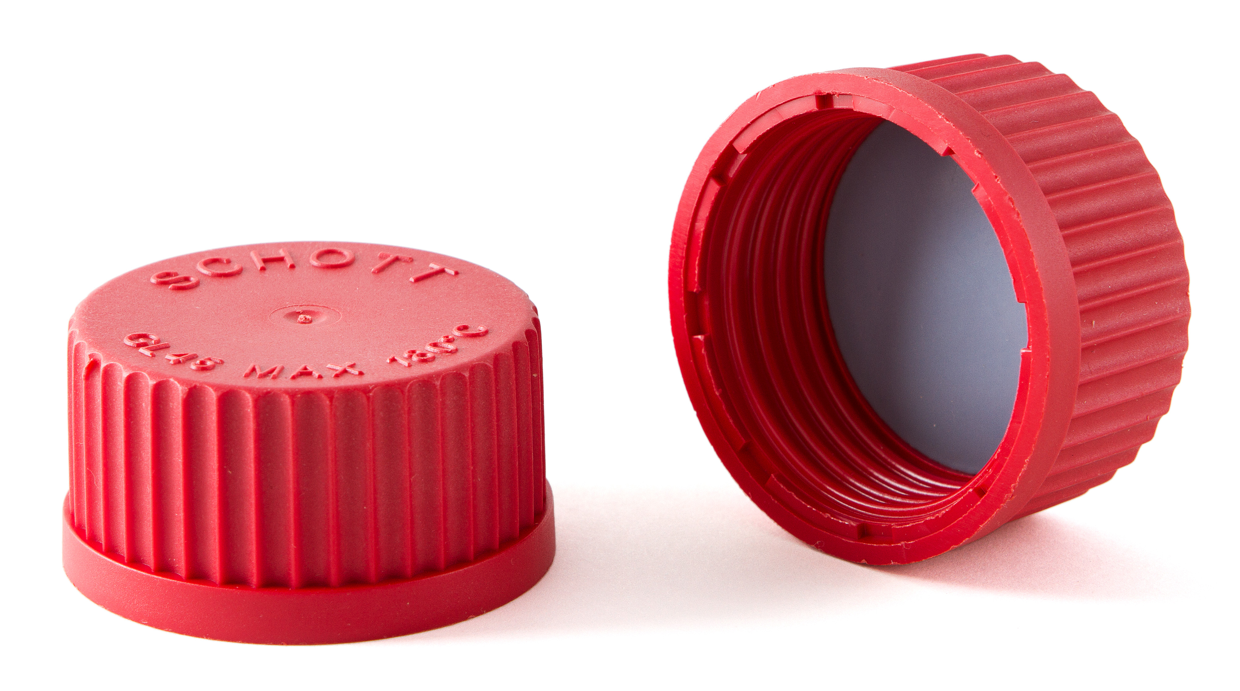 GL45 screw caps made of PBT with included PTFE coated silicone seal.